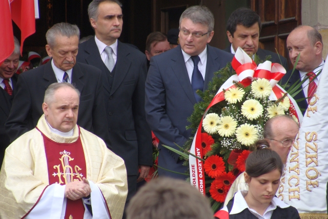 Constitution Day in Sanok